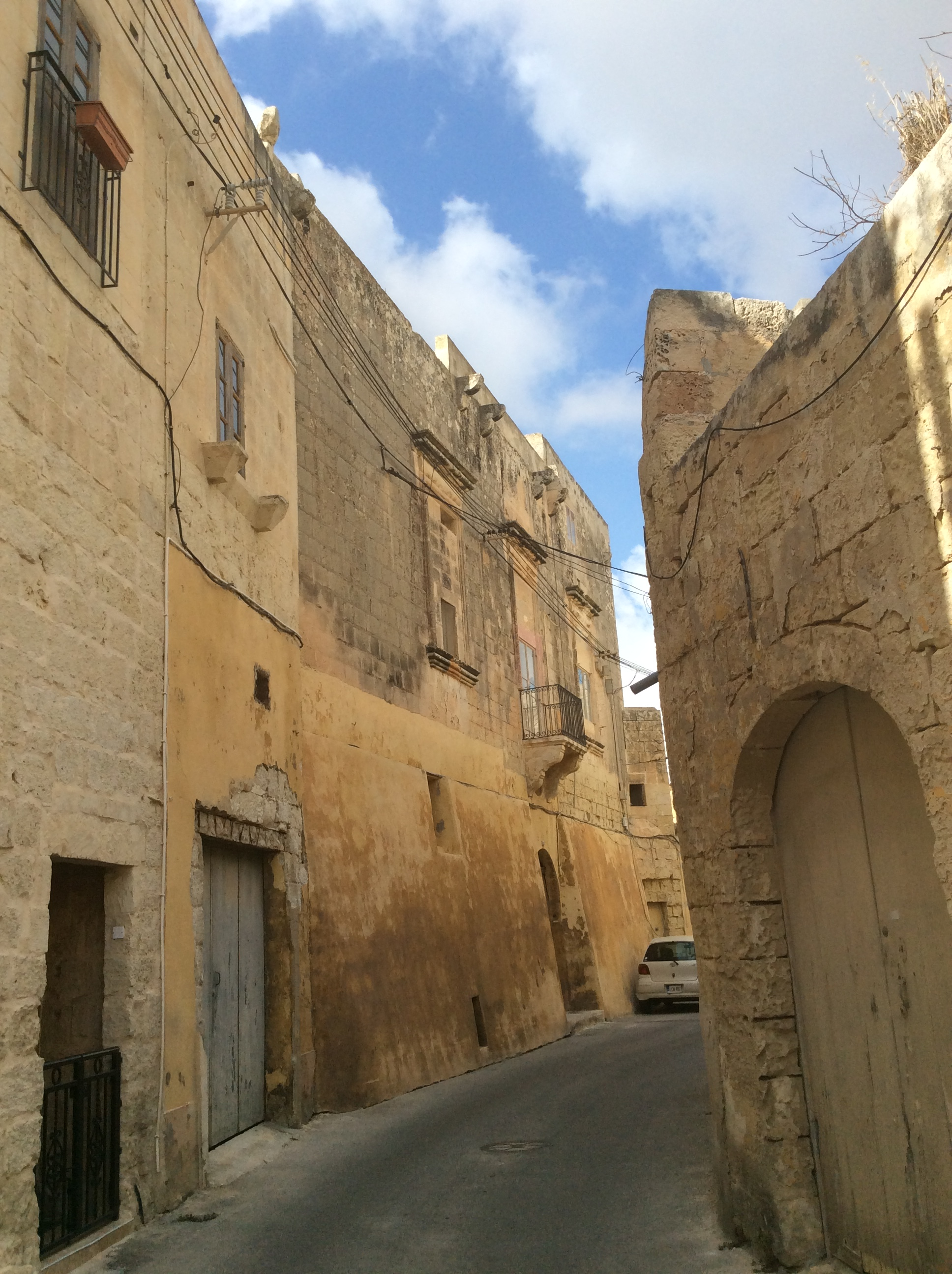 Armoury Siggiewi